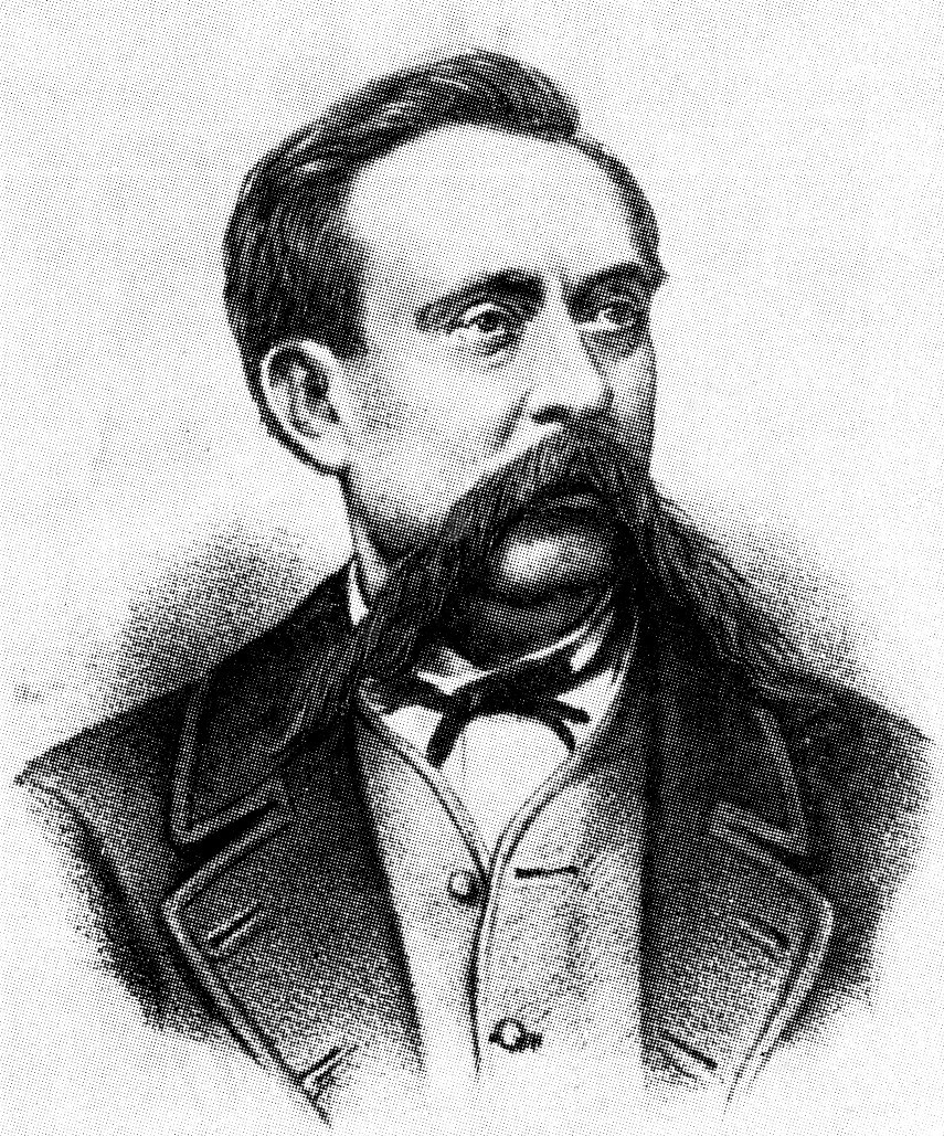 Academician N. Zinin